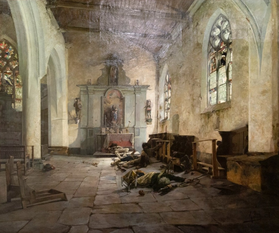 A section from a Republican regiment led by general Canclaux massacred a group of Chouans sheltering in a chapel. The Chouans fought to the death. The picture shows the interior of the chapel after the departure of the Republican troops (whose storming of the building is symbolized by the hat with the tricolor cockade left abandoned on the ground). The dead bodies and broken church furnishings testify to the violence of the action.